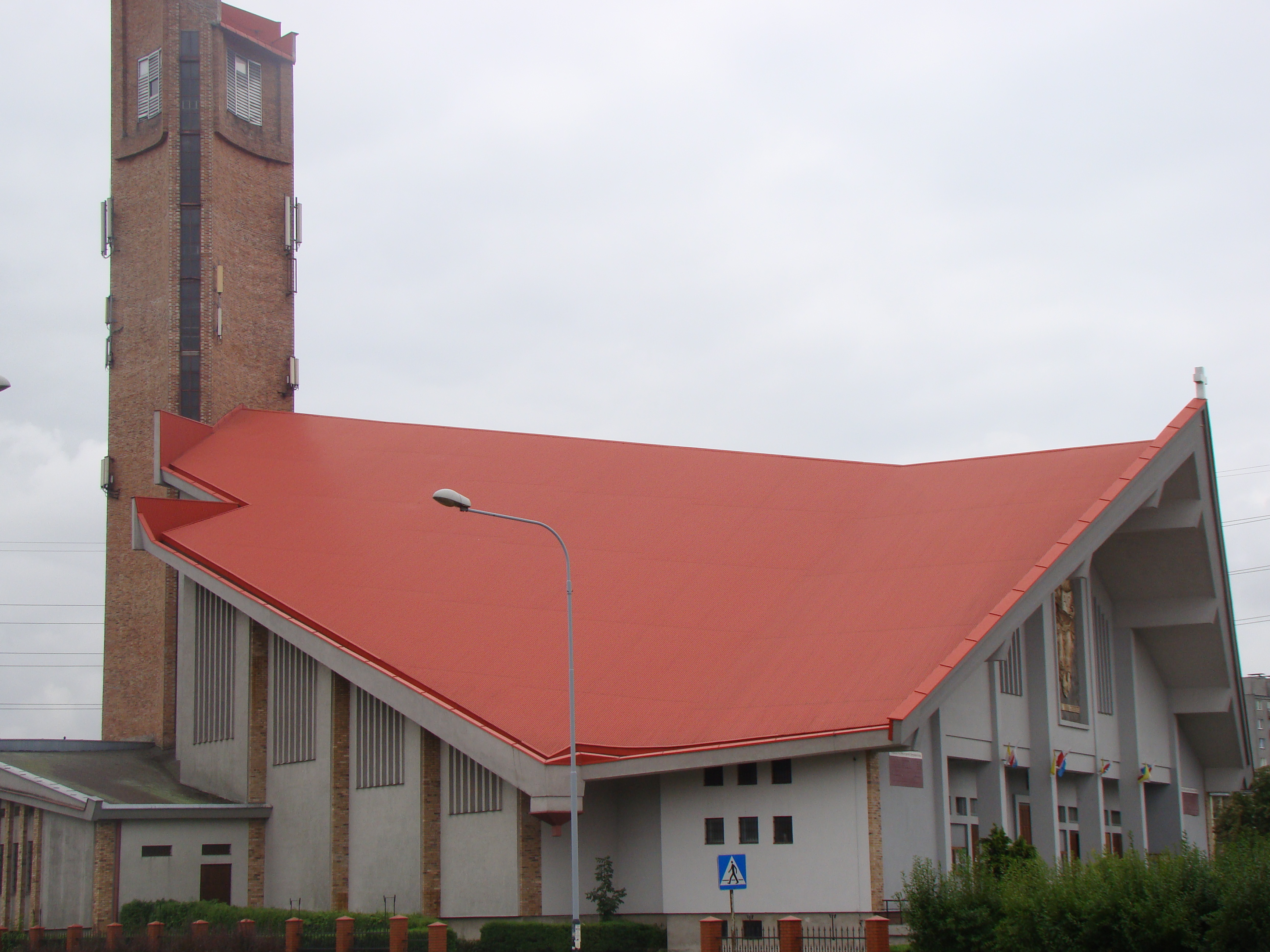 Catholic Church of Christ the King, Łódź, Poland